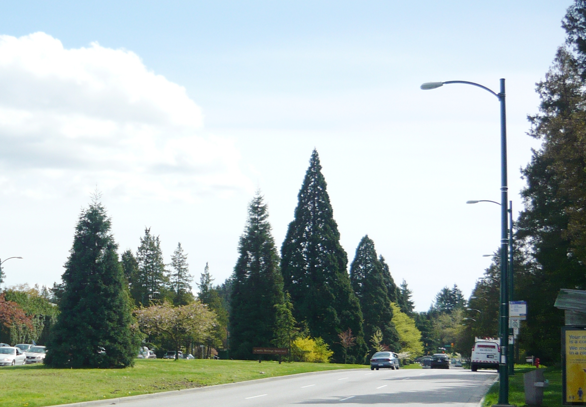 Cambie Street Boulevard Median, looking southward from King Edward Avenue. Listed on the Heritage Register of the City of Vancouver, British Columbia, Canada.